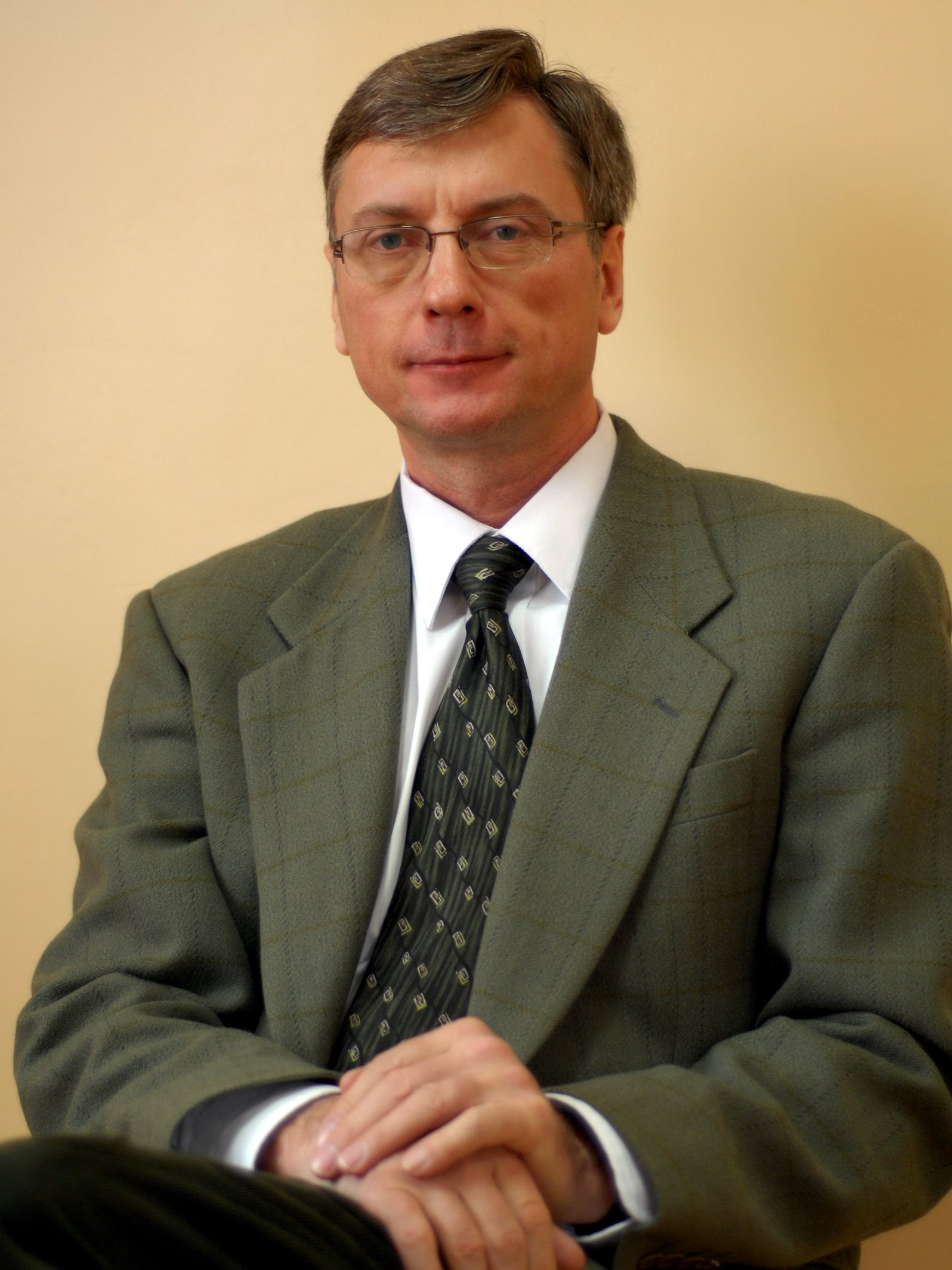 Alfred Palla, Polish writer, Biblical scholar, traveller, historian and a Protestant theologian.